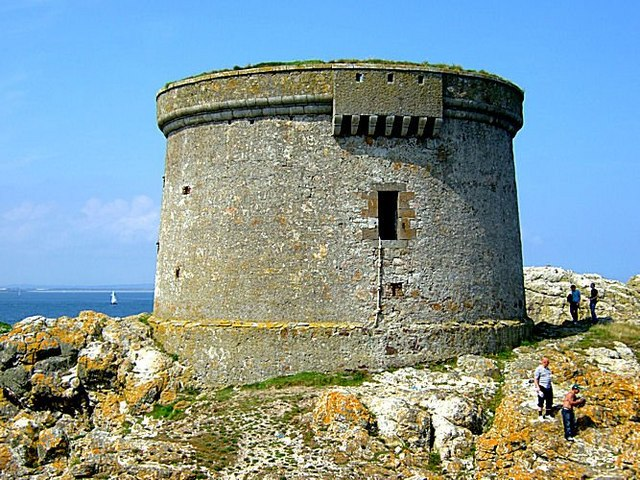 Martello Tower on Ireland Eye